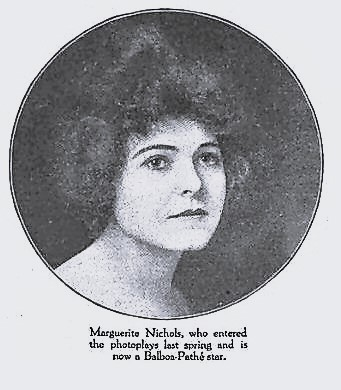 Actress Marguerite Nichols circa 1916